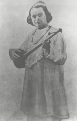 Kazi Nazrul Islam in his movie Dhruva (1934). It's Nazrul's acting in the role of Narada in 'Dhruva' released on 1st January, 1934. It was based on Girish Chandra Ghos's story. Nazrul directed the film, wrote down and composed songs for it, directed the music and served as playback singer.